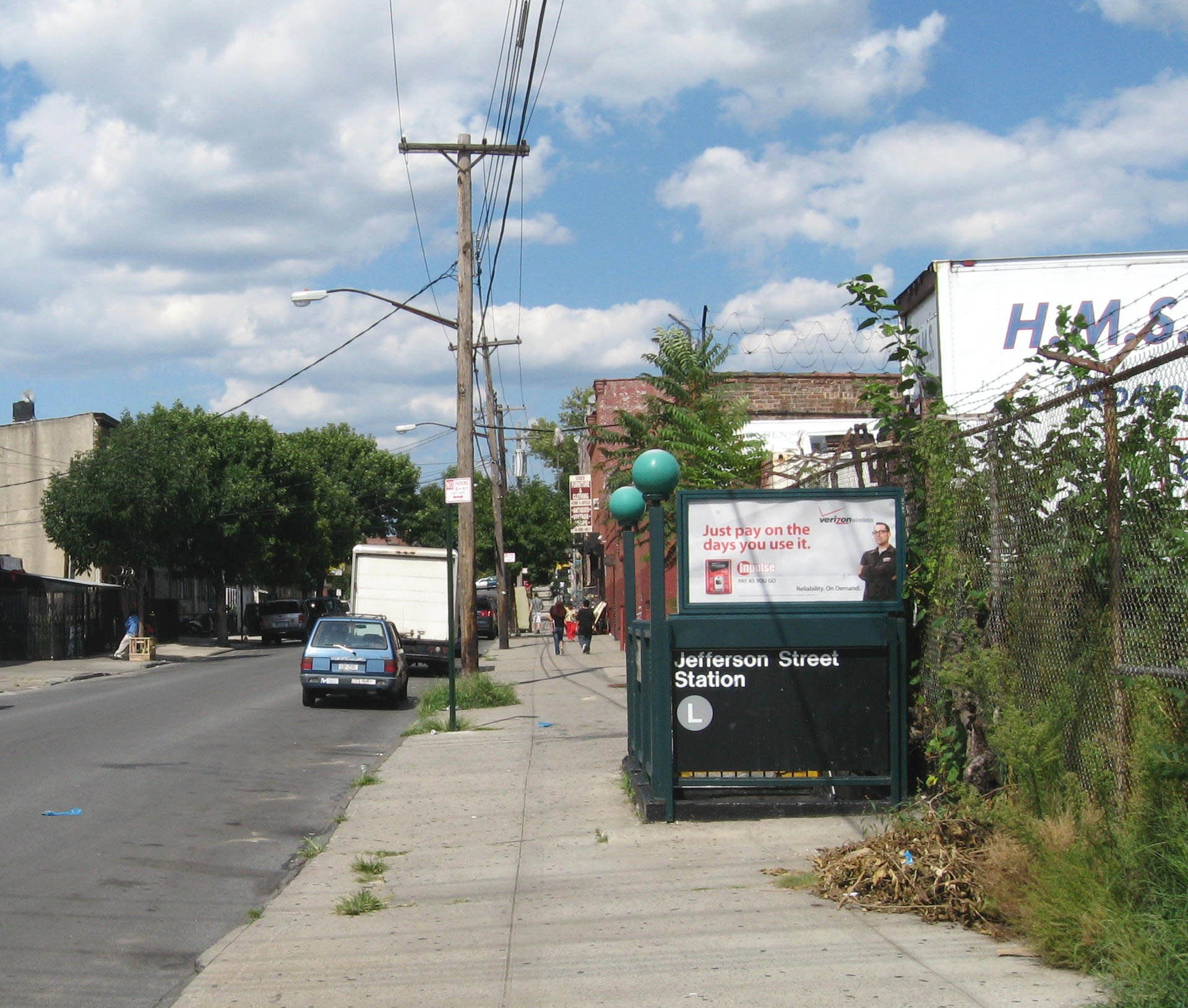 Looking northeast up Starr Street at Jefferson Street (BMT Canarsie Line) station stair on a partly cloudy midday.